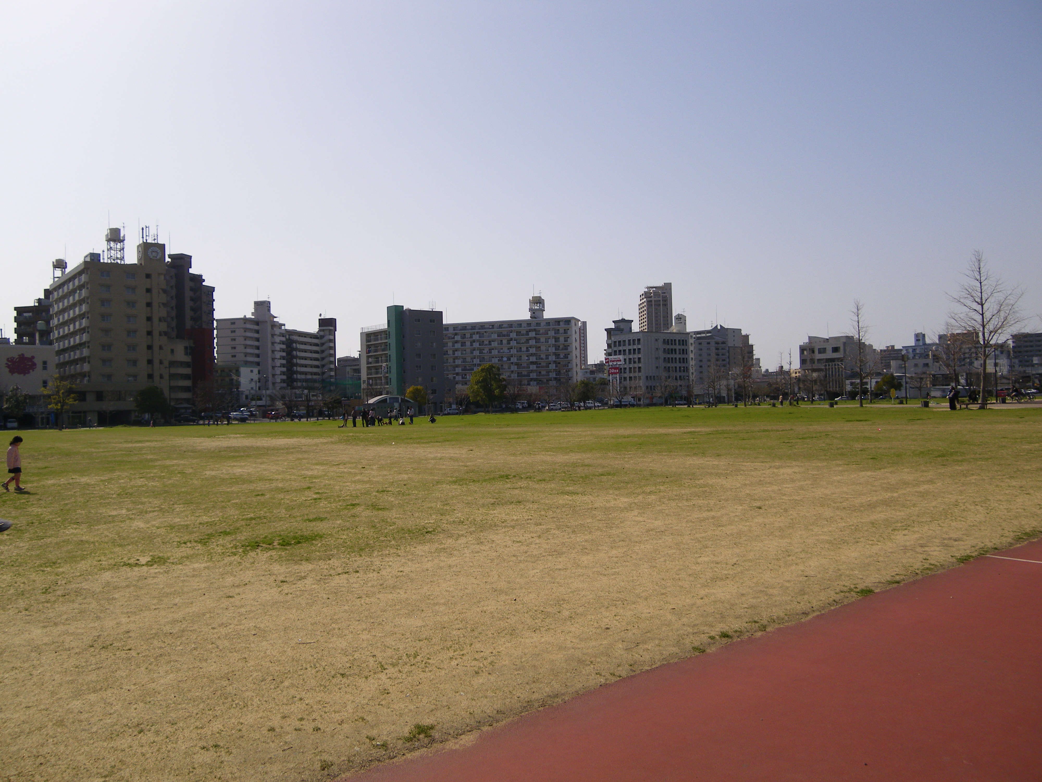 Mihagino Park,Kitakyushu.